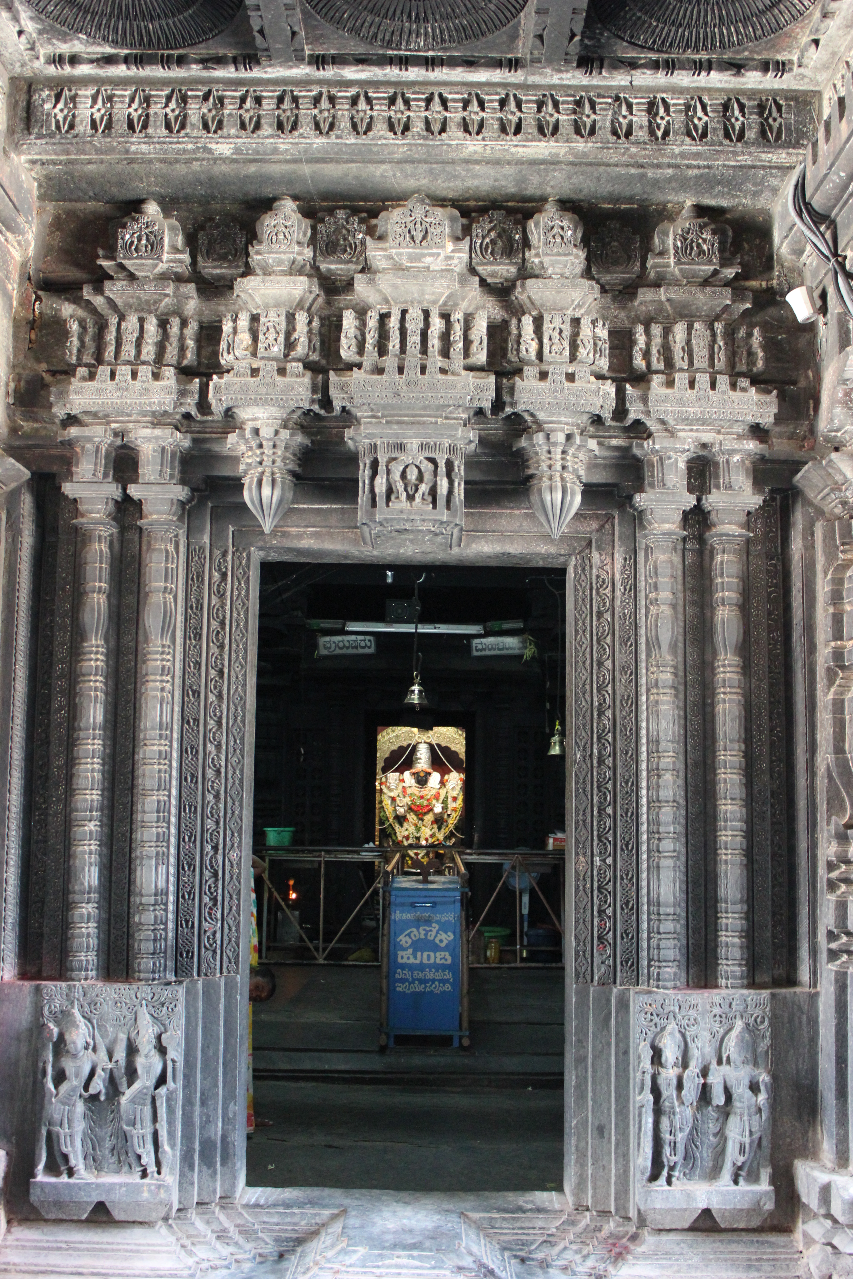 This photograph was taken by me in Harihar, Davangere district, Karnataka state, India. The Harihareshwara Temple at Harihar in was built in c.1223–1224 CE by Polalva, a commander and minister of the Hoysala Empire King Vira Narasimha II.